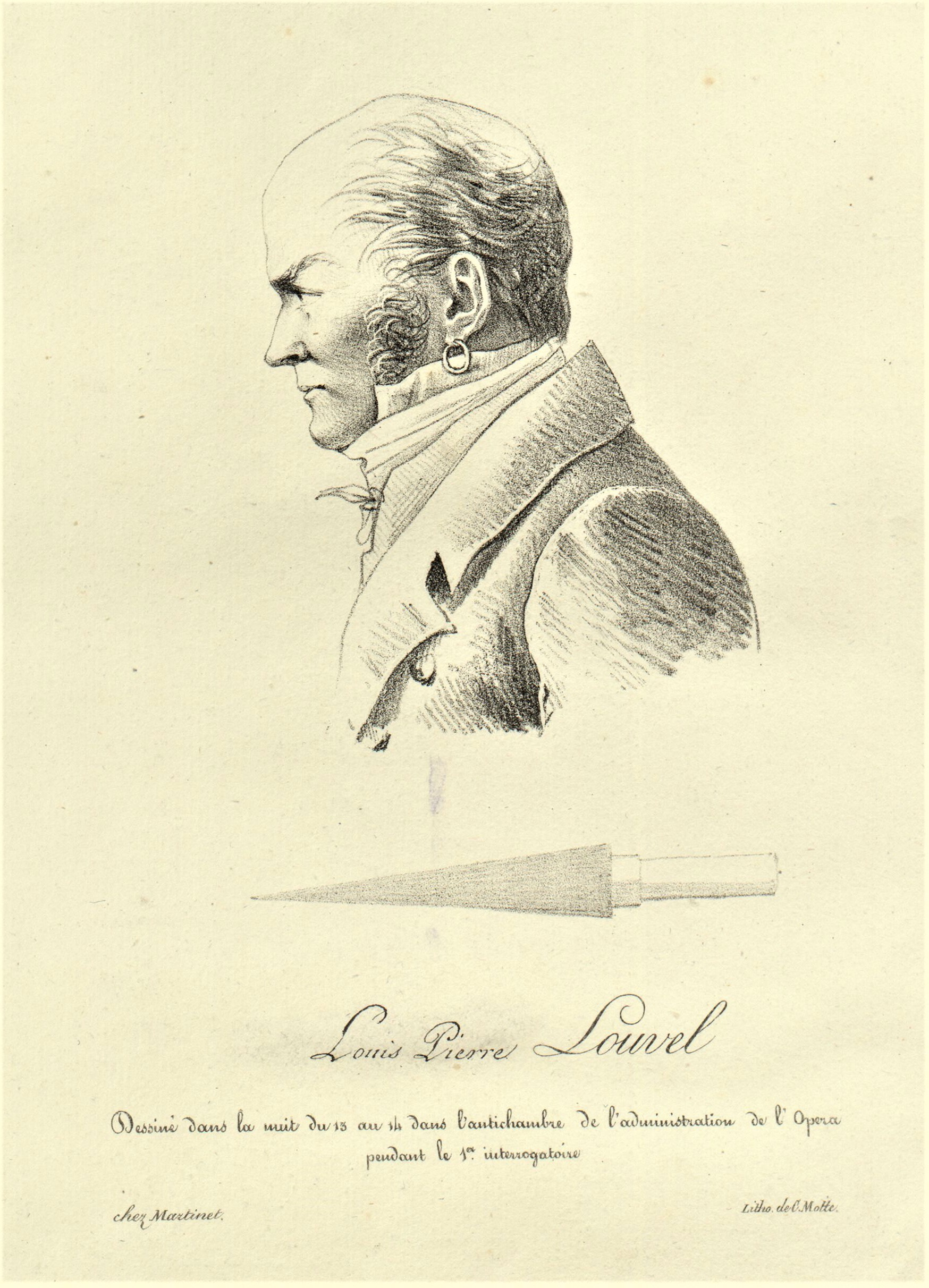 Murderer of Charles Ferdinand, Duke of Berry.